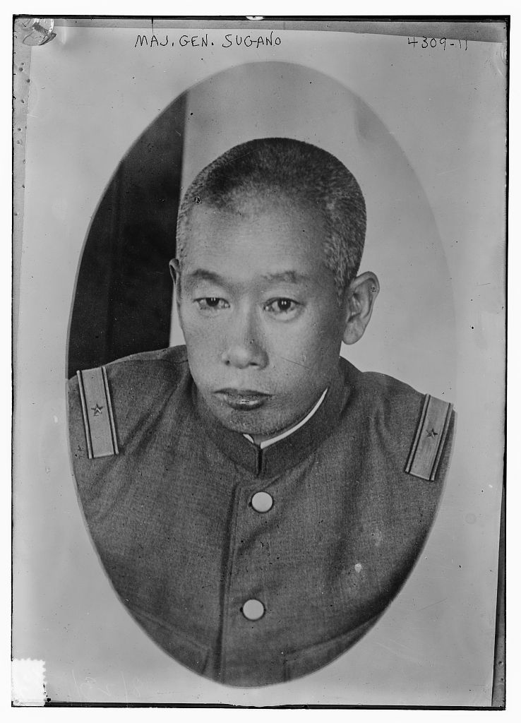 Bain News Service,, publisher. Maj. Gen. Sugano [between ca. 1915 and ca. 1920] 1 negative : glass ; 5 x 7 in. or smaller. Notes: Title from unverified data provided by the Bain News Service on the negatives or caption cards. Forms part of: George Grantham Bain Collection (Library of Congress). Format: Glass negatives. Repository: Library of Congress, Prints and Photographs Division, Washington, D.C. 20540 USA, General information about the Bain Collection is available at Higher resolution image is available (Persistent URL): Call Number: LC-B2- 4309-11